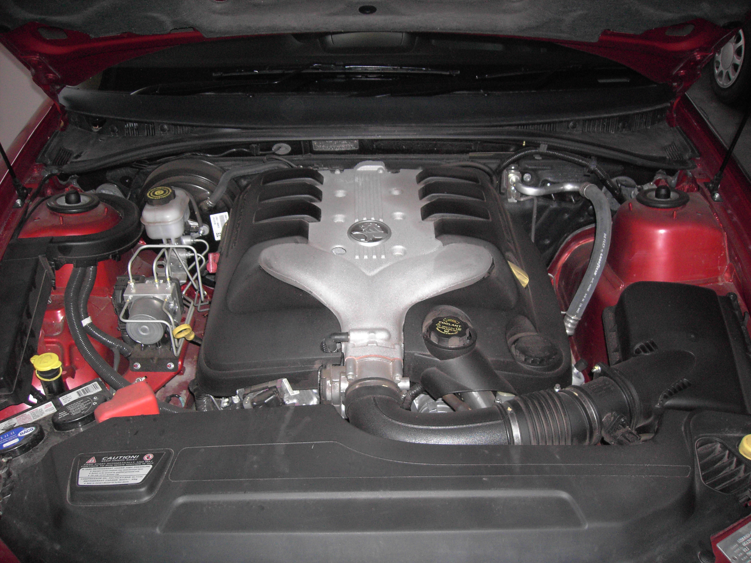 3.6 litre Alloytec V6 engine of a 2006 Holden VZ Commodore SVZ sedan, photographed in Queensland, Australia.